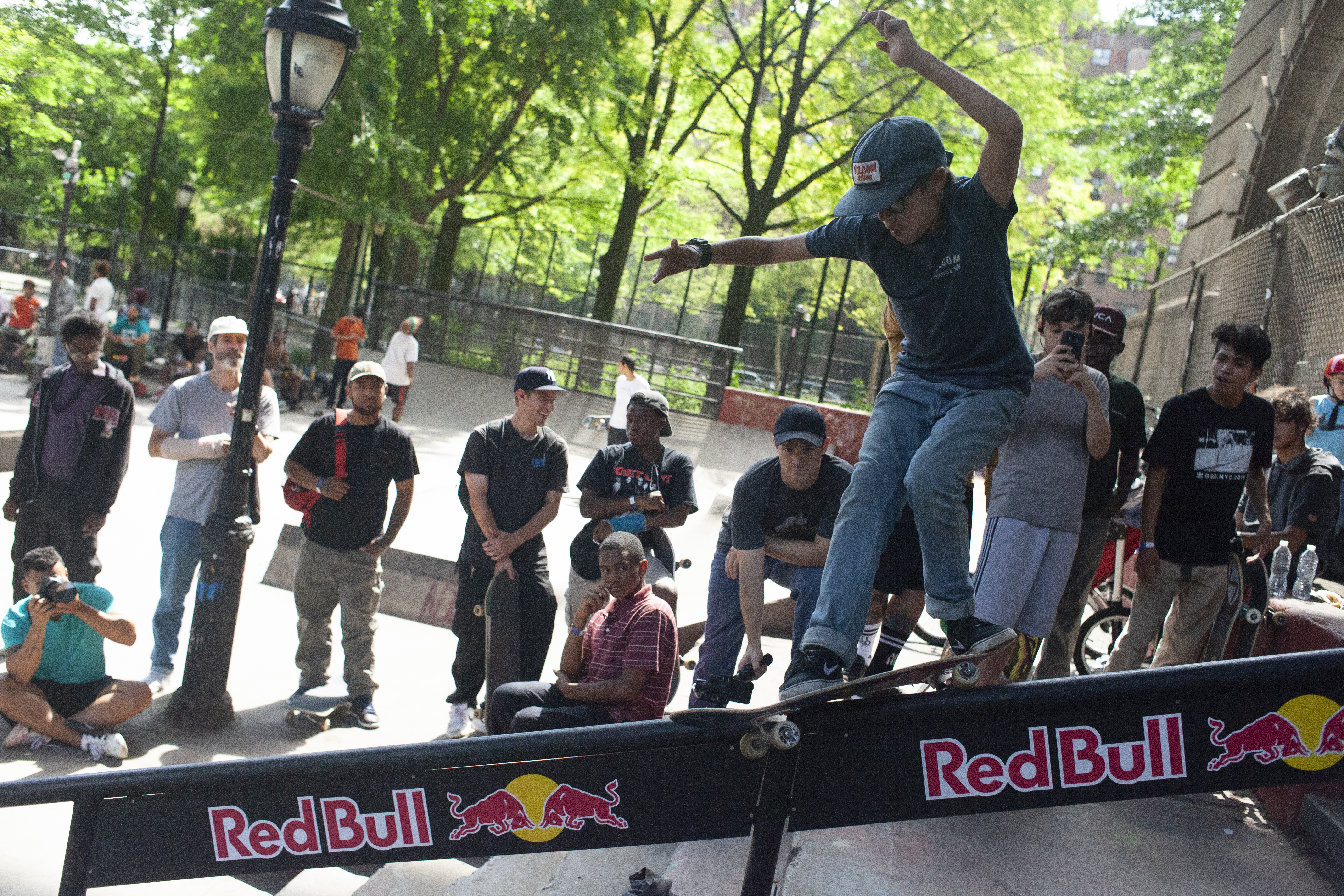 Jiro Platt nails the frontside feeble at LES skatepark during the best trick contest hosted by Red Bull.